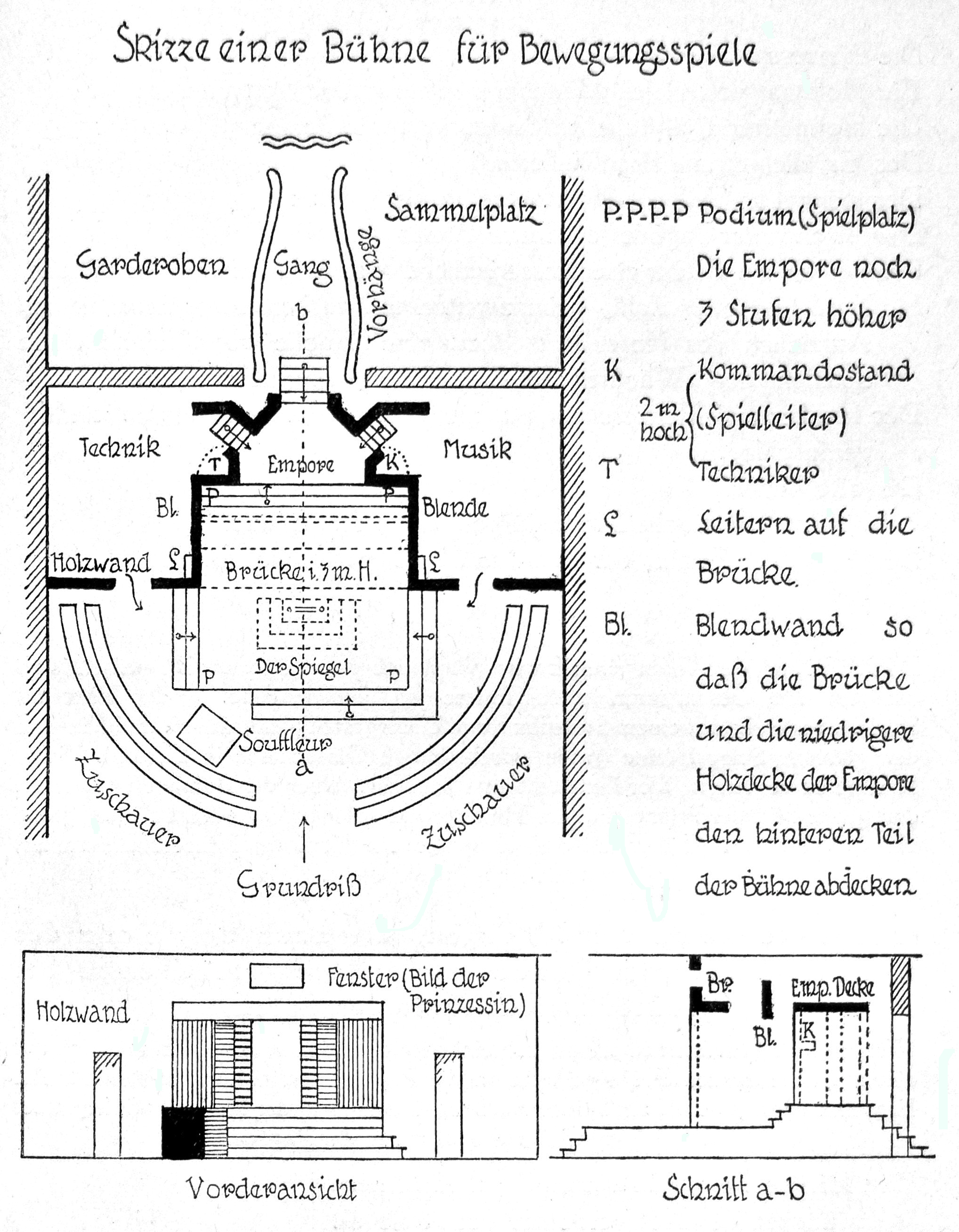 Design sketch for active stage games as carried out by Martin Luserke for Freie Schulgemeinde in Wickersdorf of Thuringia Forest in Germany. The sketch is a showcase and was realised for the stage play Der gläserne Spiegel (The Vitreous Mirror) in 1924. Later Luserke continued his work from 1925 to 1934 at Schule am Meer on the German island Juist. Around 1940 he revived his stage work in Meldorf, Holstein, Germany, where he got a teaching assignment from 1947 to 1952 at Meldorfer Gelehrtenschule.